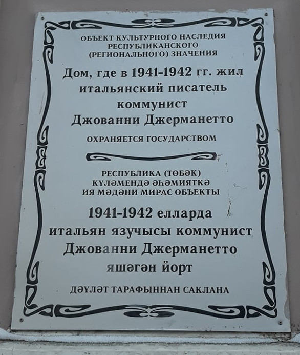 Commemorative plaque to Giovanni Germanetto in Kazan in Russian and Tatar